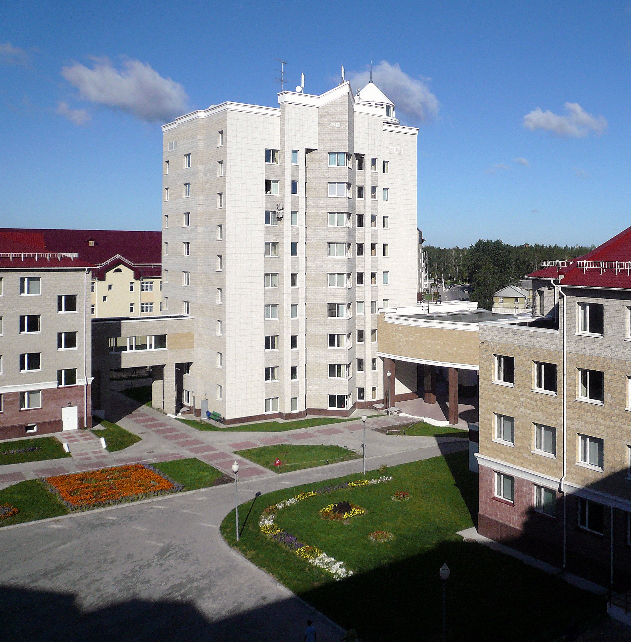 Югорский государственный университет